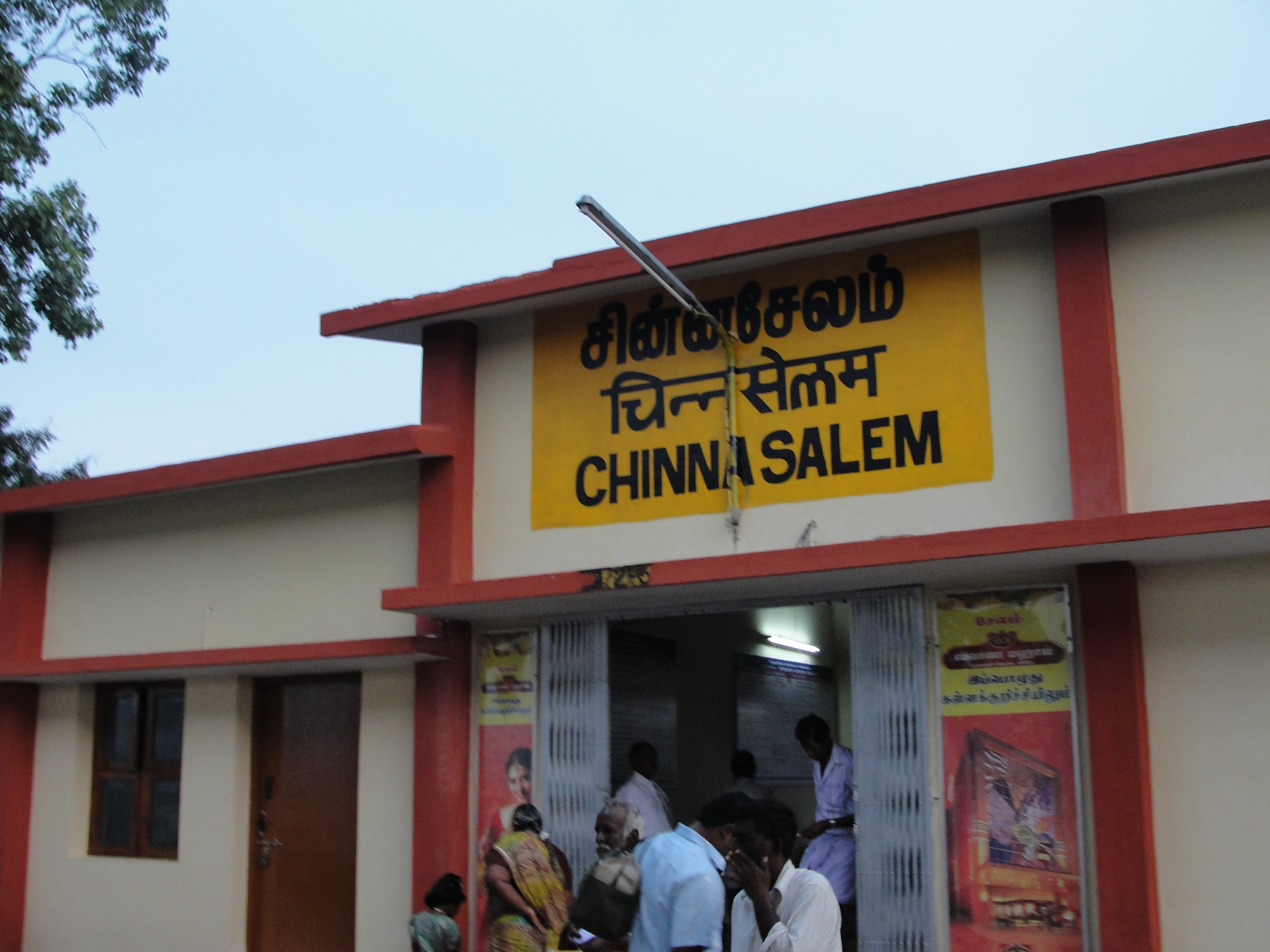 This photo depicting Chinna Salem Railway (Southern Railways) Station. Location: Villupuram District, Tamil Nadu, India